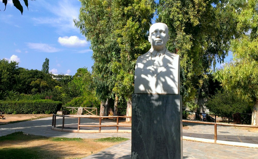 filothei